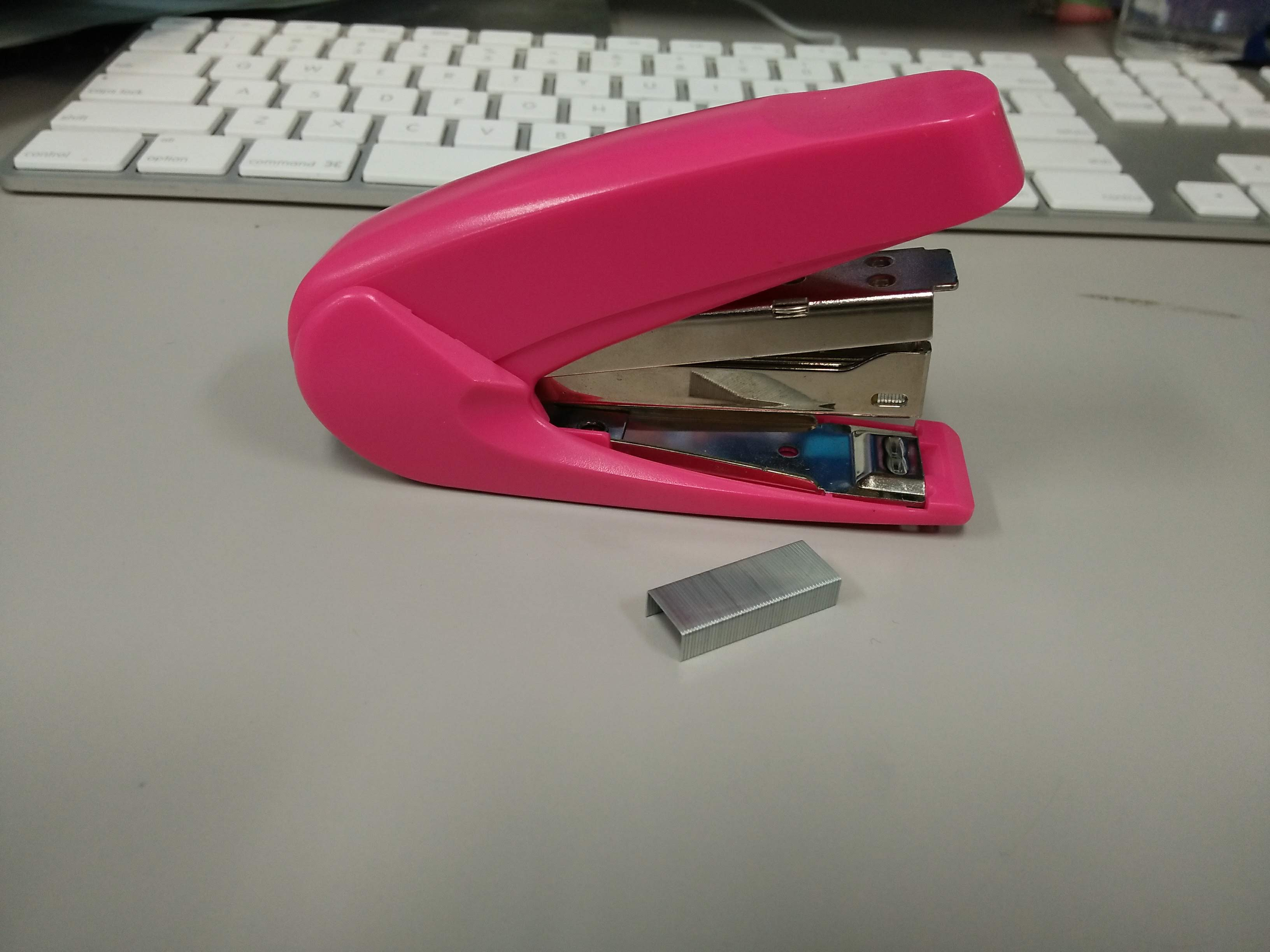 pink stapler office